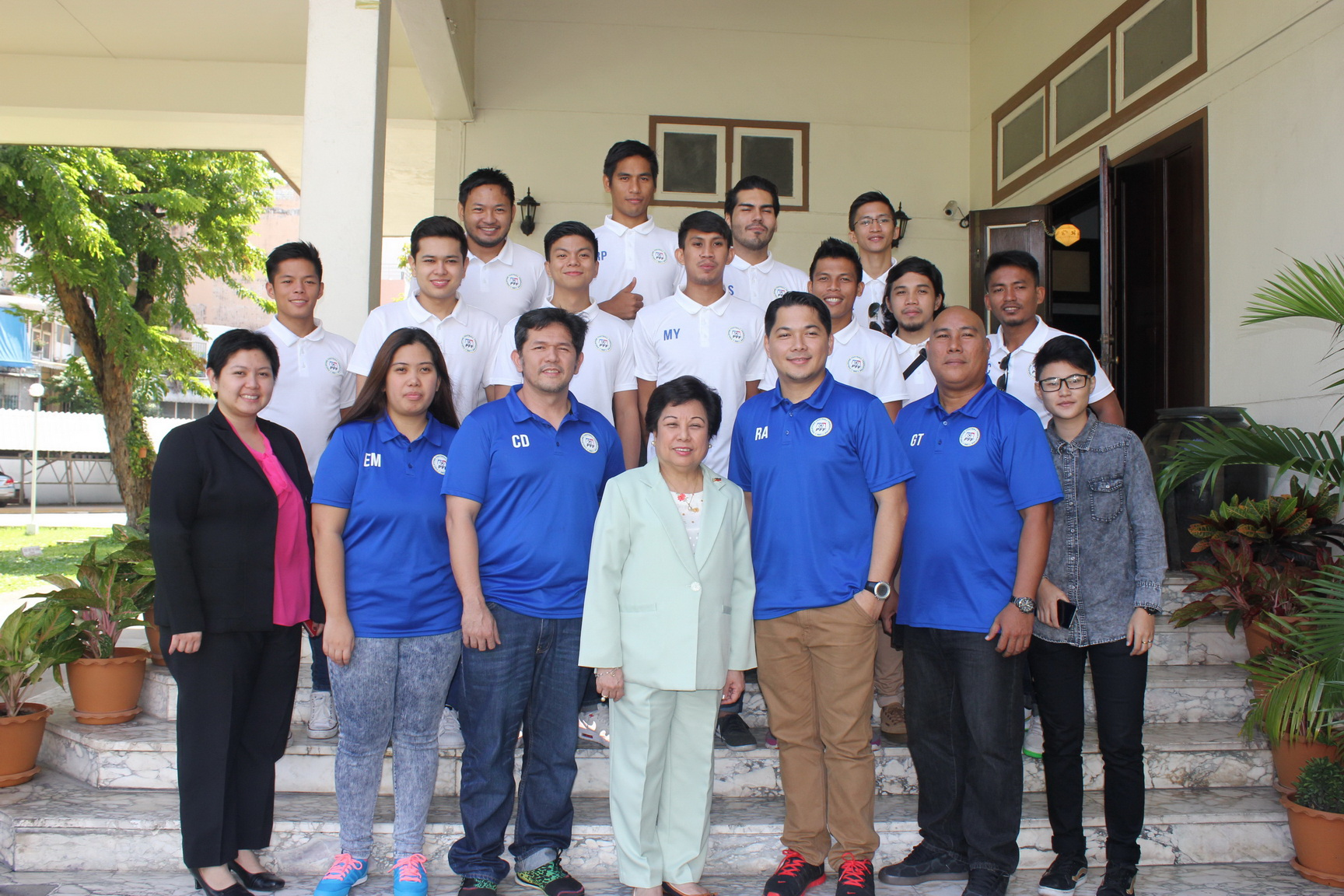 Players and officials of the Philippine national futsal team paying a courtesy call on Ambassador Mary Jo A. Bernardo-Aragon. The team mentored by head coach Baltazar "Red" Avelino and assistant coaches Gil Talavera and Christian Dominguez competed at the 2016 AFC Futsal Championship qualifiers